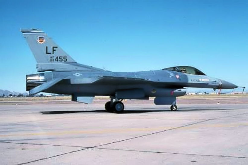 311th Tactical Fighter Training Squadron -General Dynamics F-16C Block 30A Fighting Falcon 85-1455 w/o Oct 22, 1992, Konya ranges